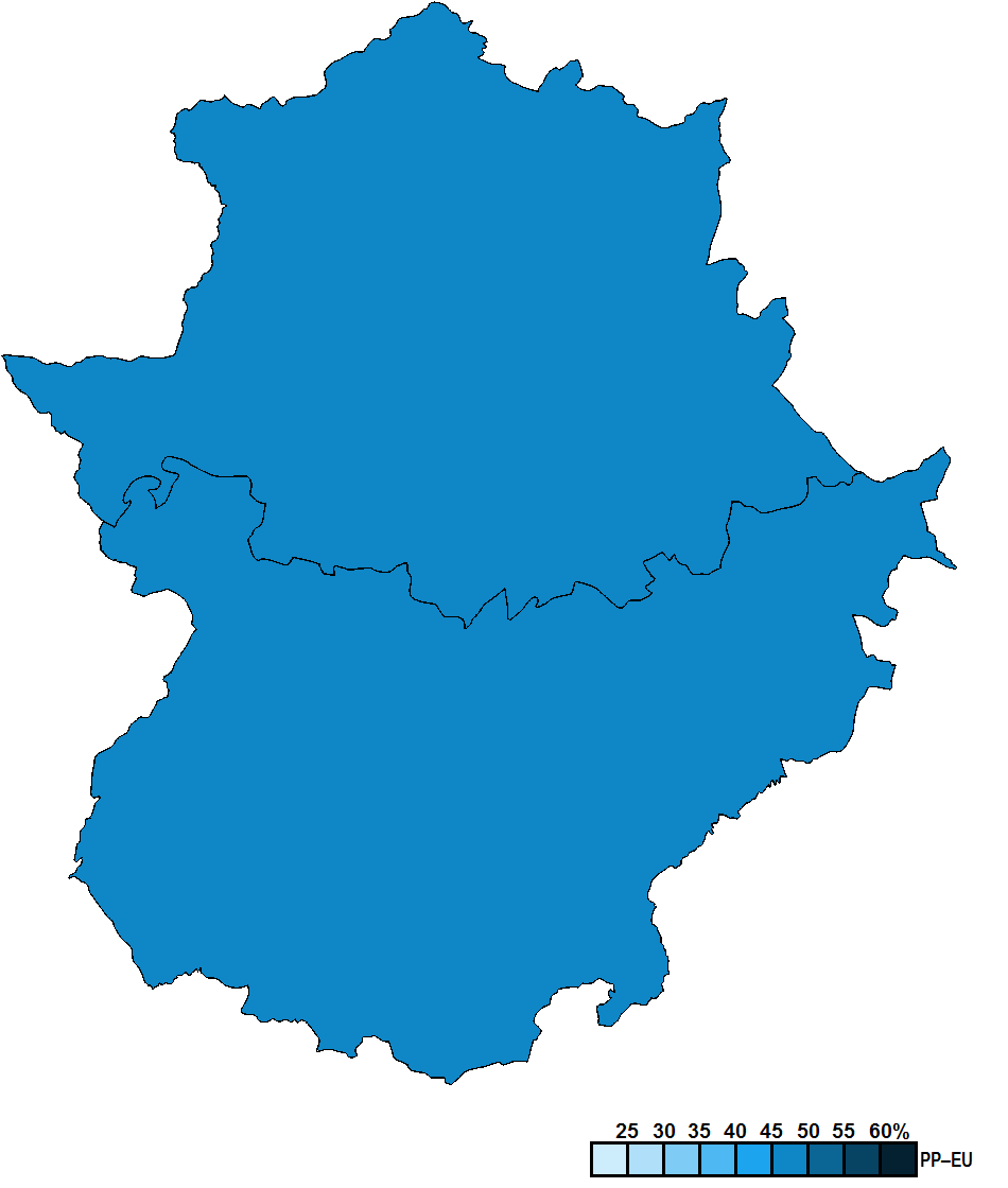 Provincial results for the 2011 Extremaduran regional election.